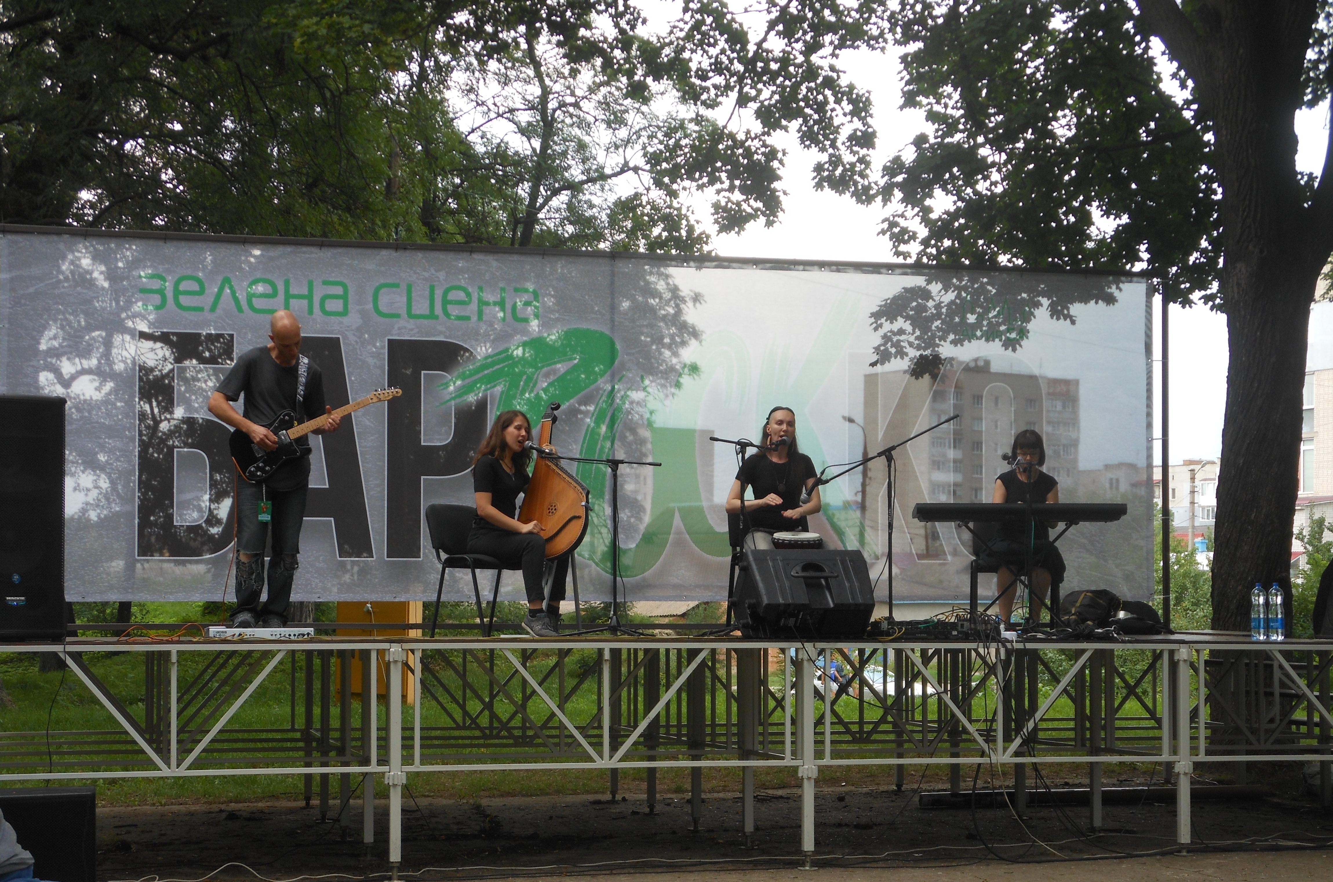 Group Pororoka at the BarRockCo Bar Festival July 2018